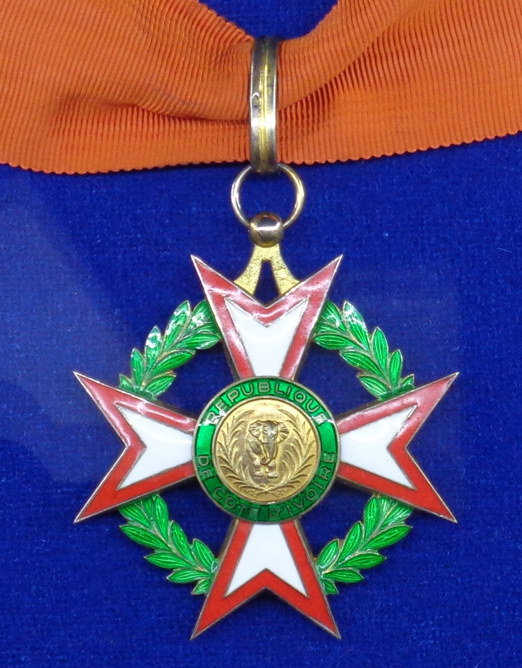 National Order of the Republic of the Ivory Coast, badge of Grand Officer. Ivory Coast. The exhibition of the Tallinn Museum of Orders of Knighthood, Estonia.